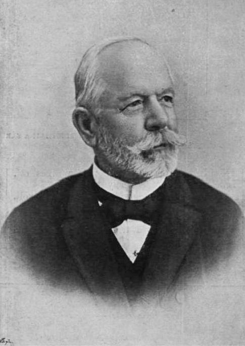 Gusztáv Kondor